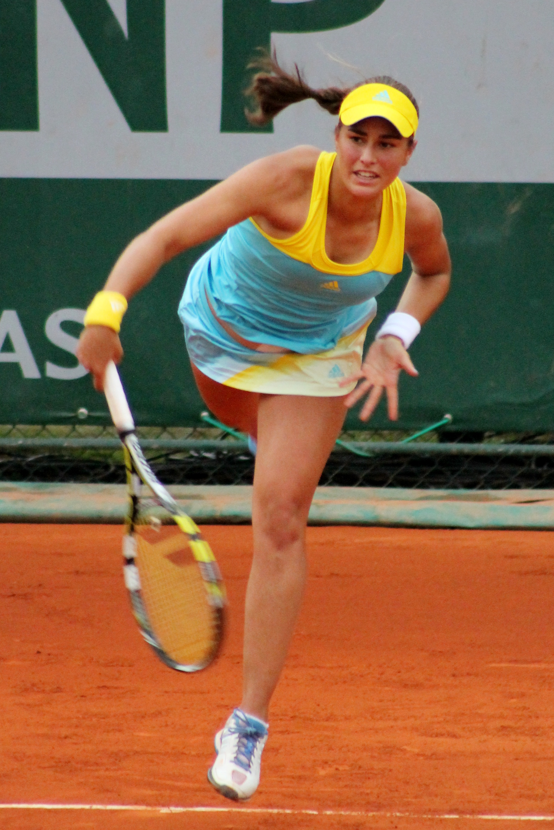 Monica Puig playing in the first round of the Ladies Singles at Roland Garros, Court 7, on 29 May 2013; opponent was Madison Keys (USA)